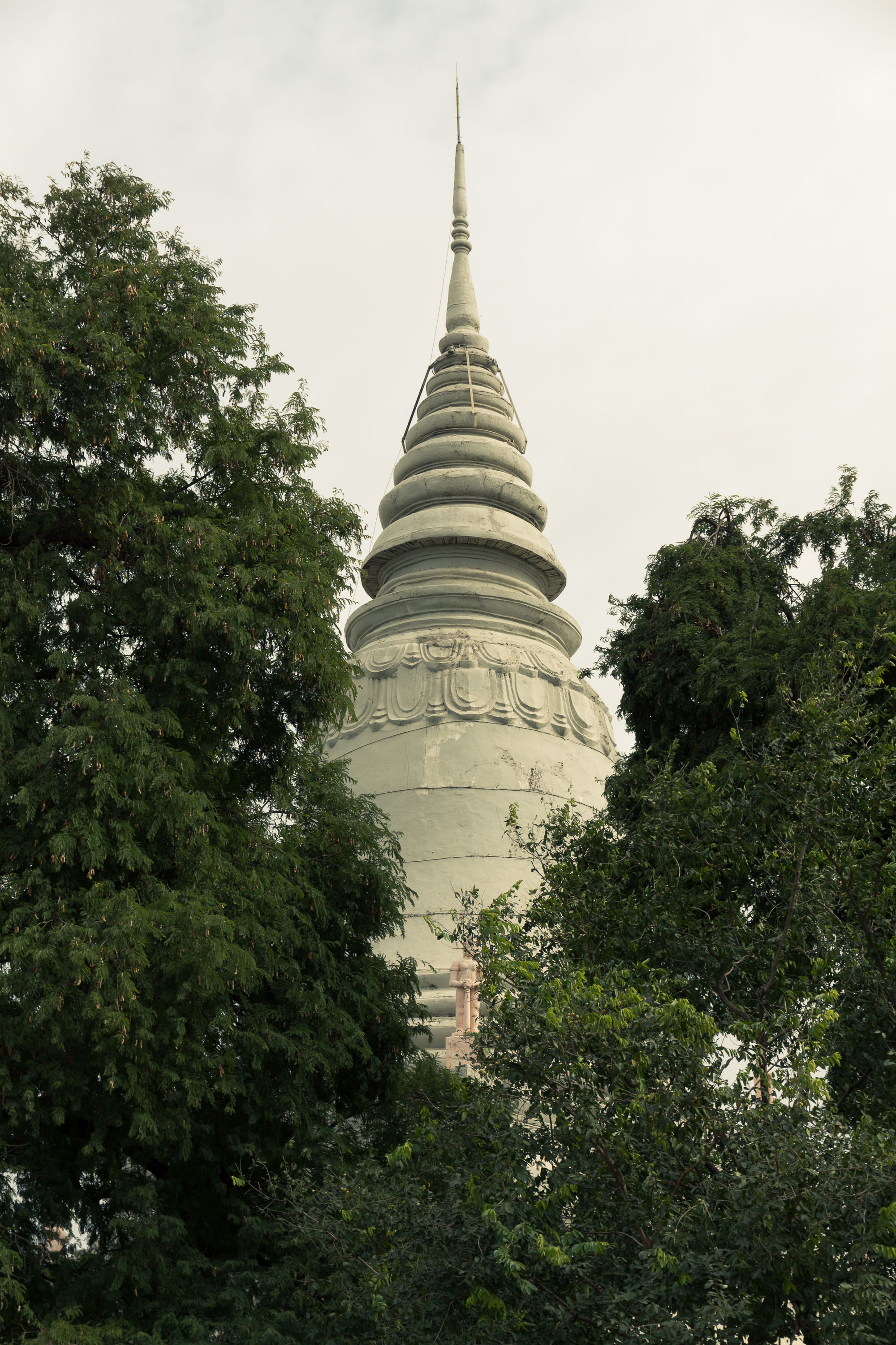 Wat Phnom